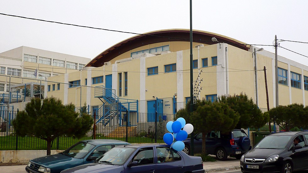 The above picture depicts the training hall at Nea Penteli.